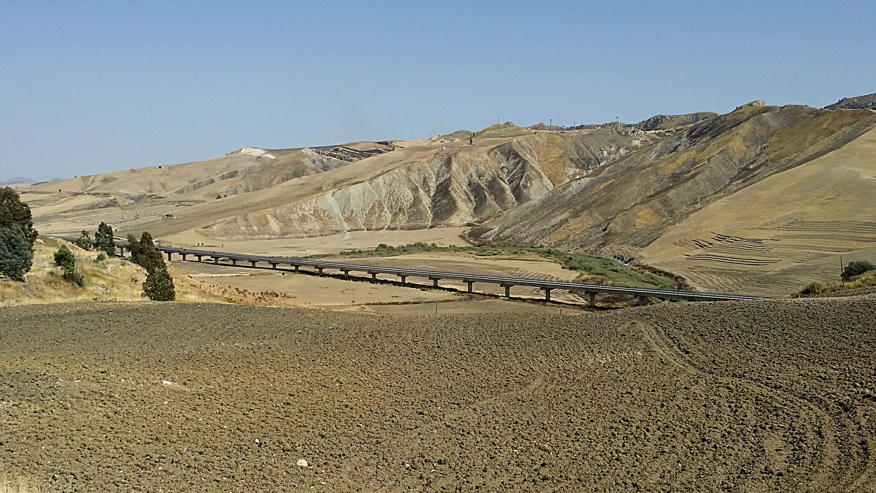 Besaro viaduct in italian national road "S.S. 626 della Valle del Salso", over the border between the provinces of Enna and Caltanissetta (Sicily).